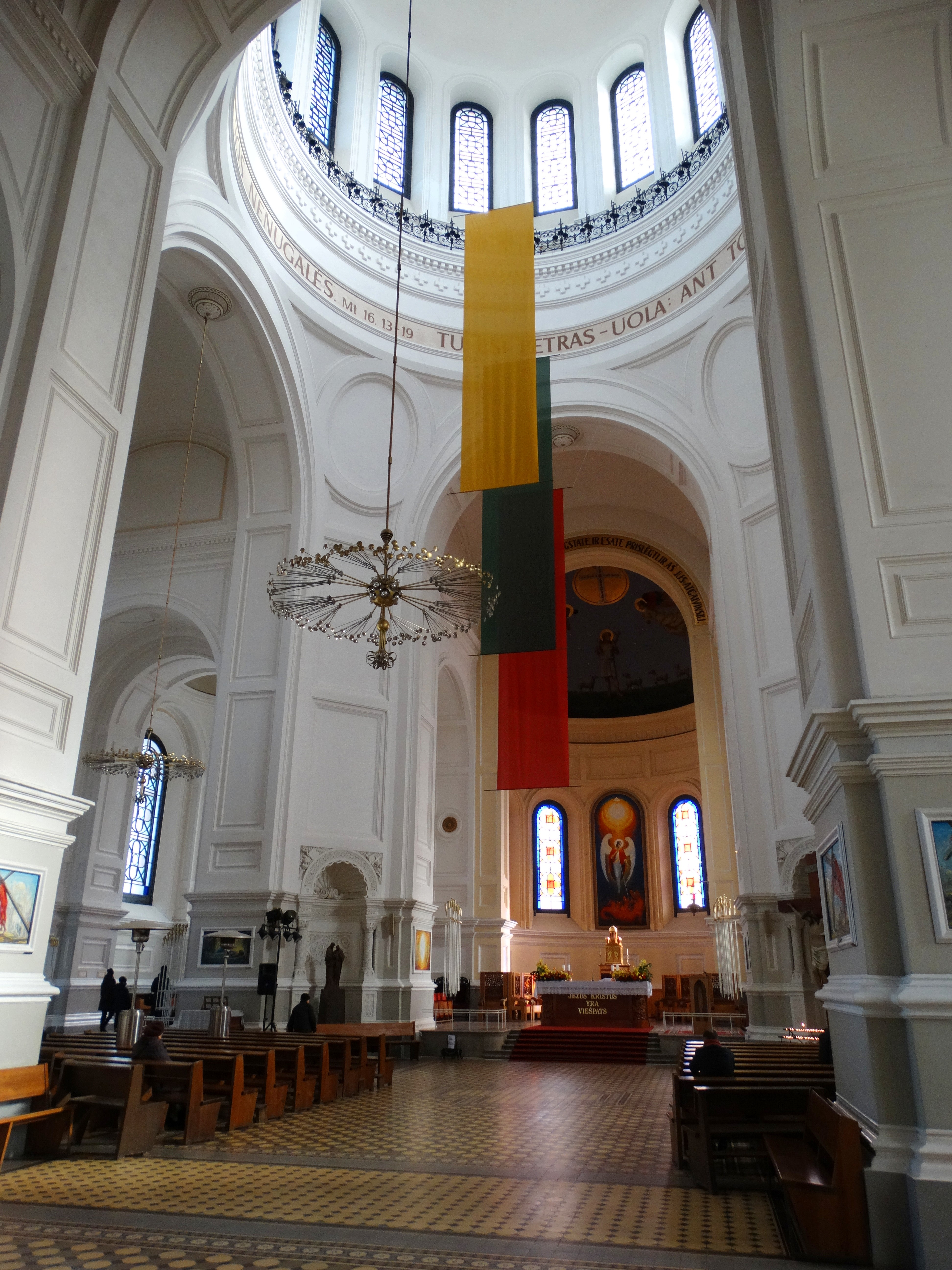 Interior, St. Michael the Archangel Church, Kaunas, Lithuania